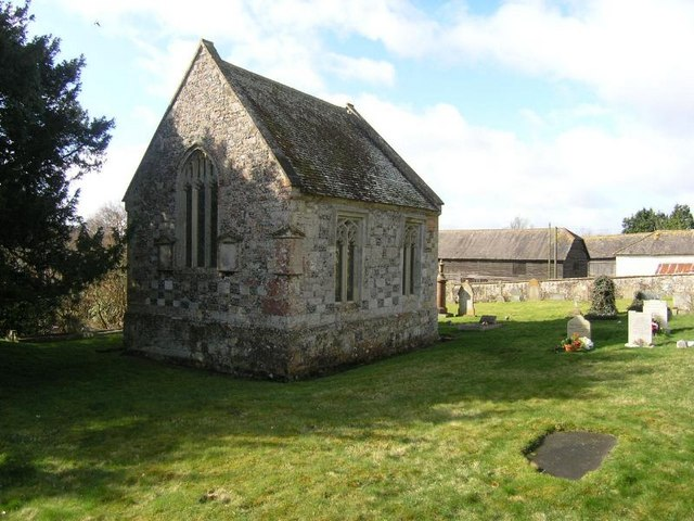 St Mary's Chapel, Warminster Road, Chitterne, Wiltshire, England, seen from the northeast. The chapel was the chancel of a parish church, the rest of which has been demolished.